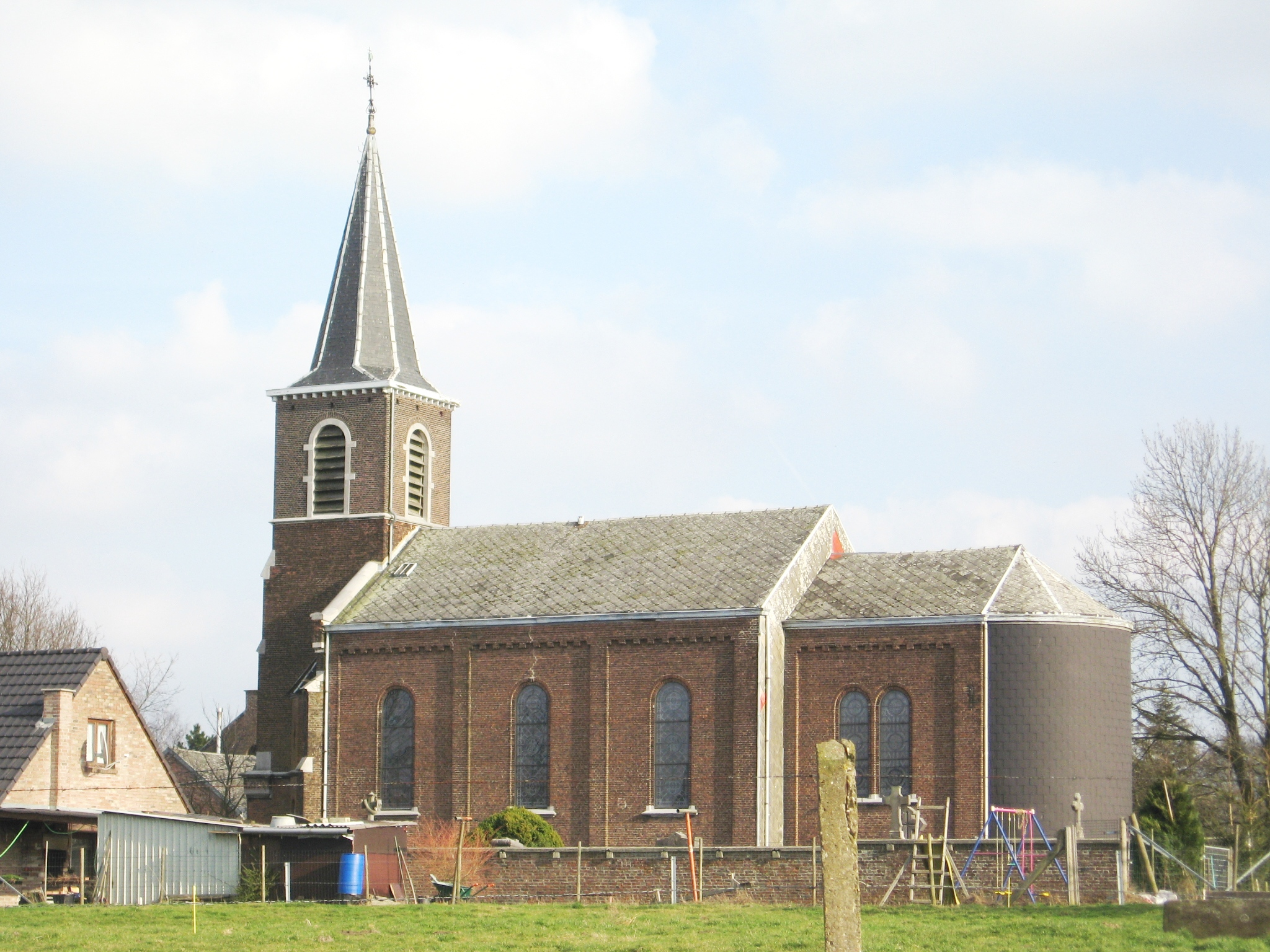 Church of Saint John the Evangelist in Wihogne, Juprelle, Liège, Belgium